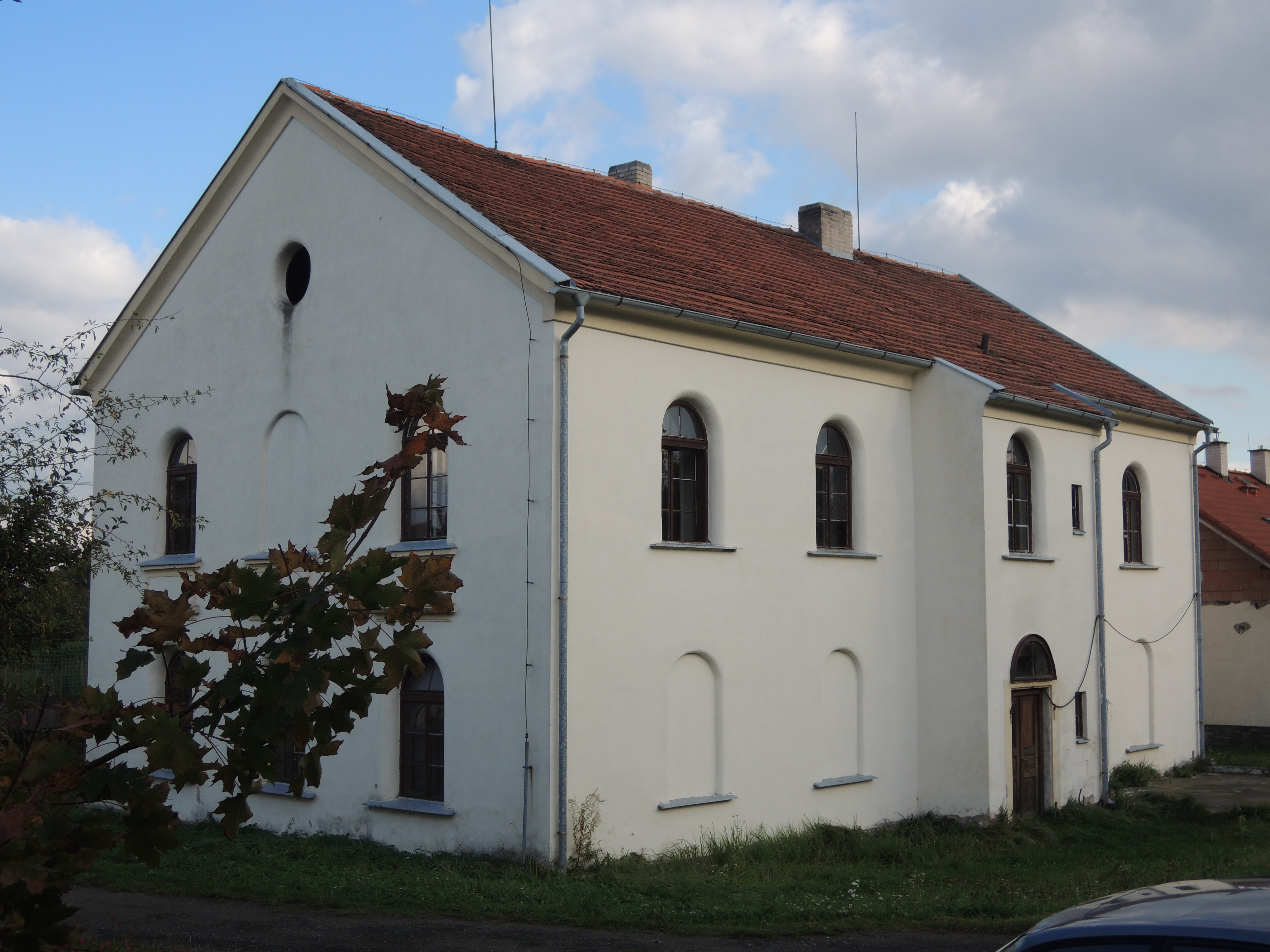 Pyšely a town i Benešov District, Czech Republic, a former synagogue.